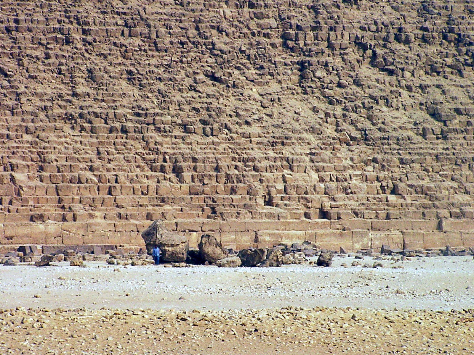 Remnants of Khafre's satellite pyramid from South, with the main pyramid in the background. Note uneven rows of the core blocks on the main pyramid, and the red granite stones at ground level.